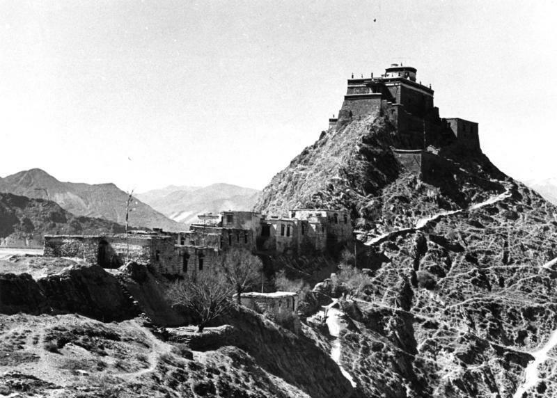 Lhasa, medical center from the two-legged Chorten (*note- the "two-legged chorten" referred to here is the famous "Pargo Kaling" or "Western Gate" which had a tunnel through which people and animals passed to the front of the Dalai Lama's Potala)